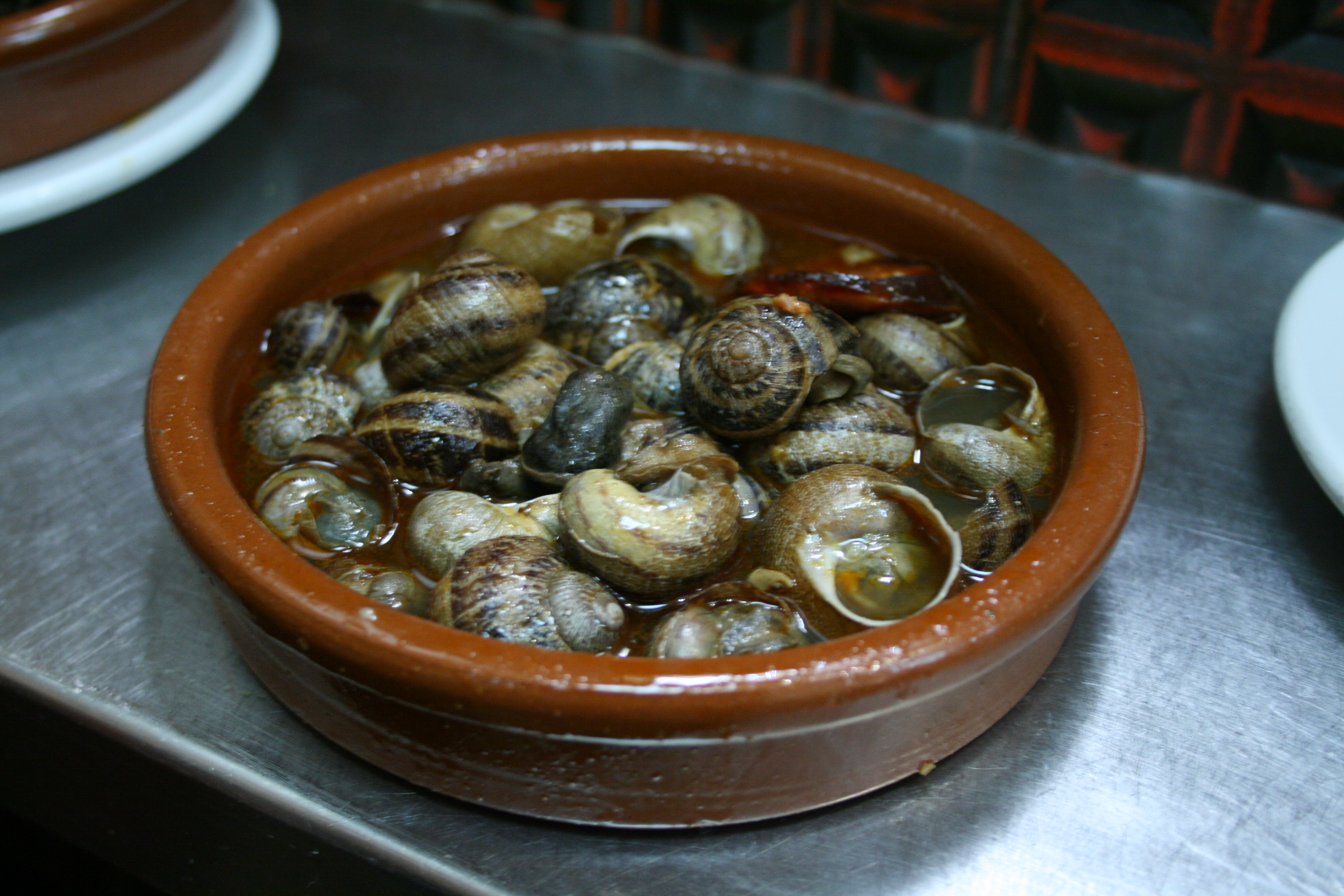 Cooked Spanish "caracoles a la madrileña", species Helix aspersa